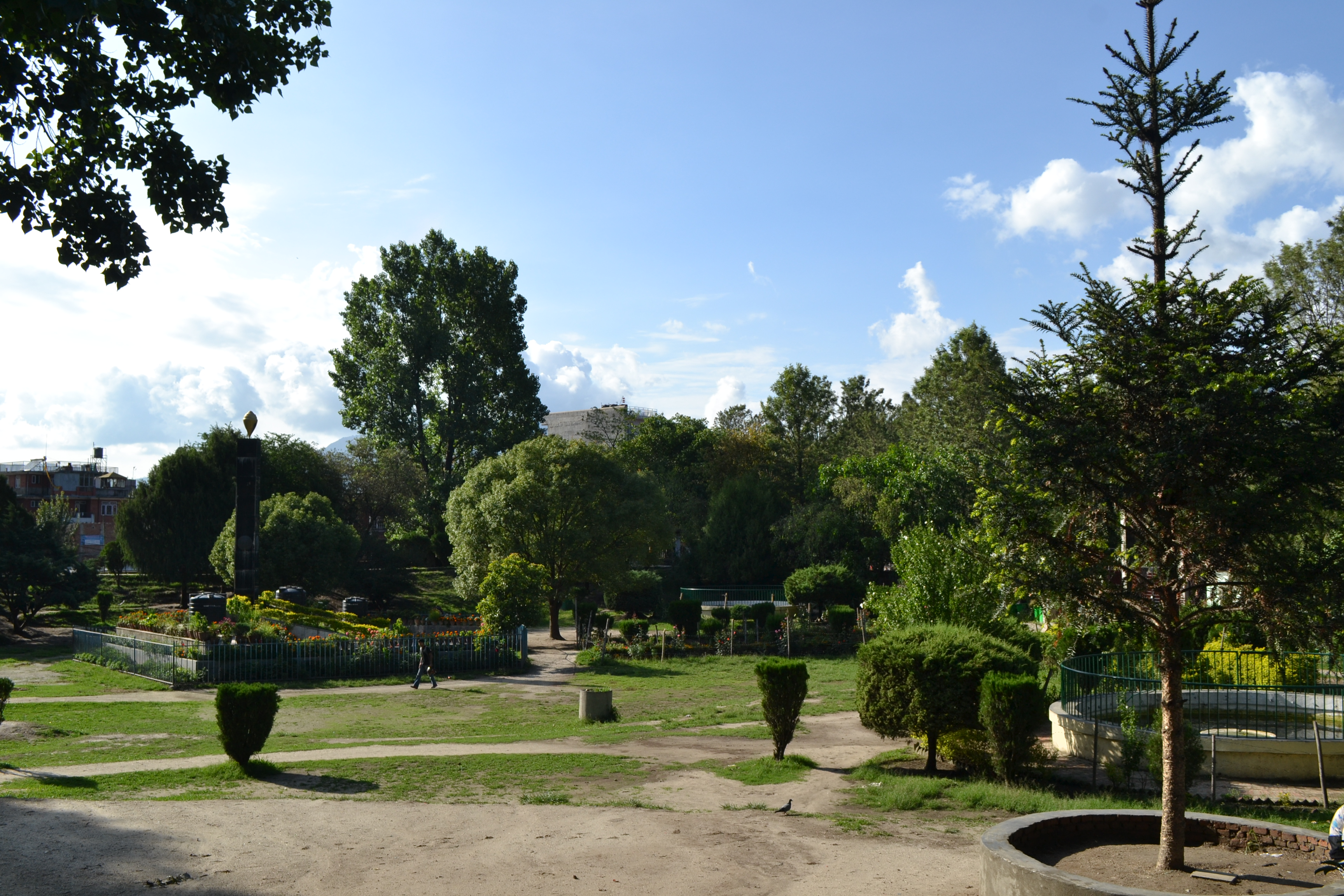 Shankh Park in kathmadu